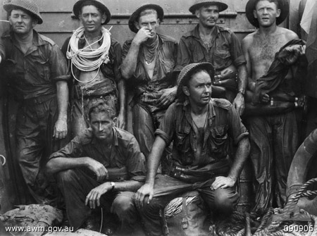 Sourced from: [1] AWM Caption: TARAKAN, BORNEO. 1945-04-30. MEN OF 2/13 FIELD COMPANY, ROYAL AUSTRALIAN ENGINEERS, EXHAUSED AFTER THE INITIAL ATTEMPT TO GET ASHORE AT LINGKAS TO BLOW WIRE DEFENCES. THEY REST IN A LANDING CRAFT VEHICLE-PERSONNEL BEFORE A LATER SUCCESSFUL ATTEMPT AT FULL TIDE. IDENTIFIED PERSONNEL ARE:- SAPPER J.F. WILLIAMS (1); SAPPER J.R. MUNRO, LATER KILLED IN ACTION ON SNAG'S TRACK (2); SAPPER J.A. HOFFMANN (3); SAPPER R.A.R. STEVENSON (4); LANCE-CORPORAL R.C. MACE (5); SAPPER D.R. BIDWELL (6); SAPPER C.J. FOLEY (7).